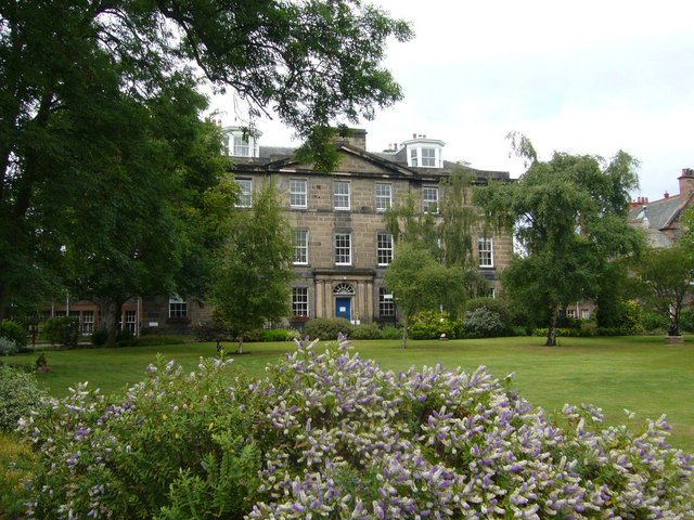 Donaldson's, Edinburgh Academy. Now part of the Edinburgh Academy, Donaldson's retains it name from the time when the building was a school for the Deaf which merged with Donaldson's Hospital in 1938. The exterior was featured in the opening and closing sequences of the 1969 film 'The Prime of Miss Jean Brodie'. 1302469